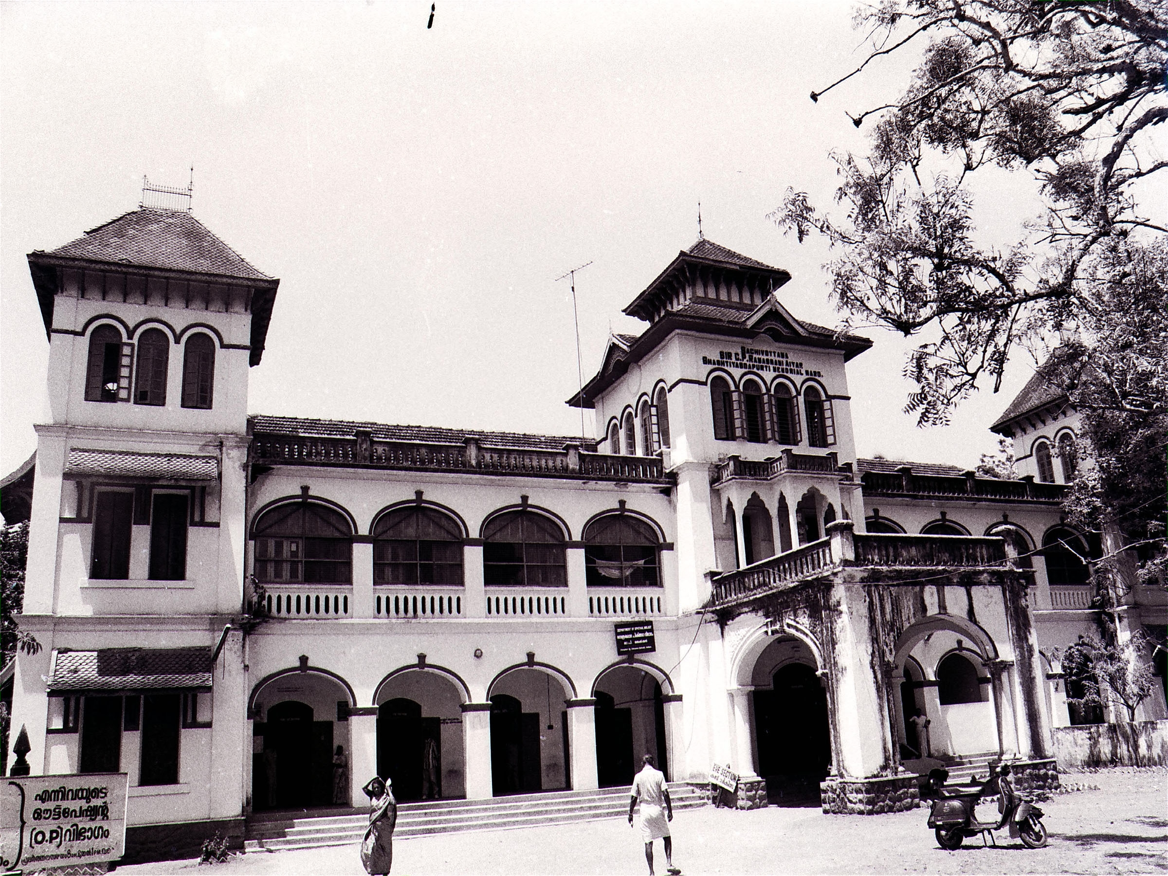 Travancore National and Quilon Bank Building in Kollam